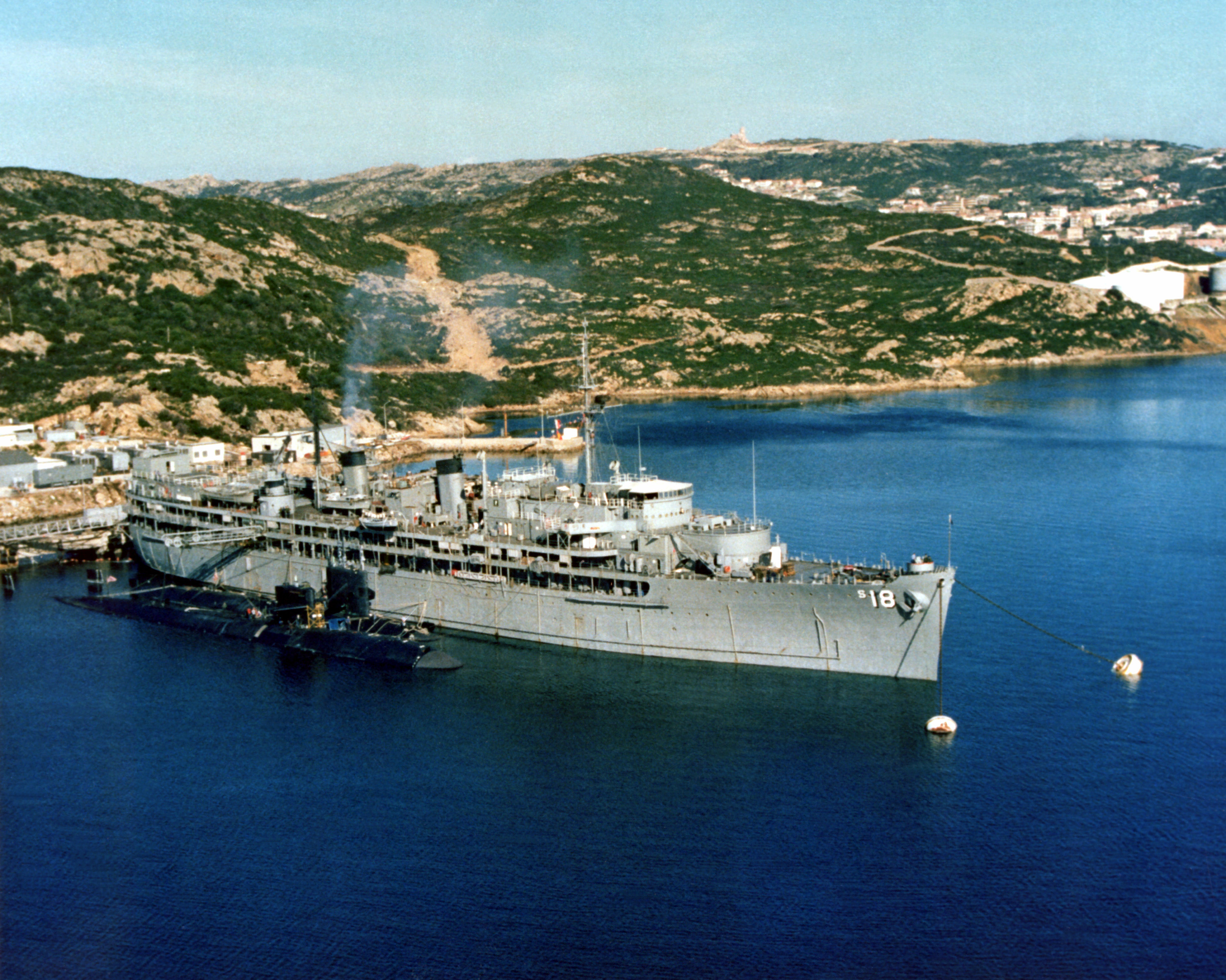 An elevated starboard bow view of the U.S. Navy submarine tender USS Orion (AS-18) and two submarines anchored at Naval Support Activity La Maddalena, Sardinia (Italy), on 1 September 1983.